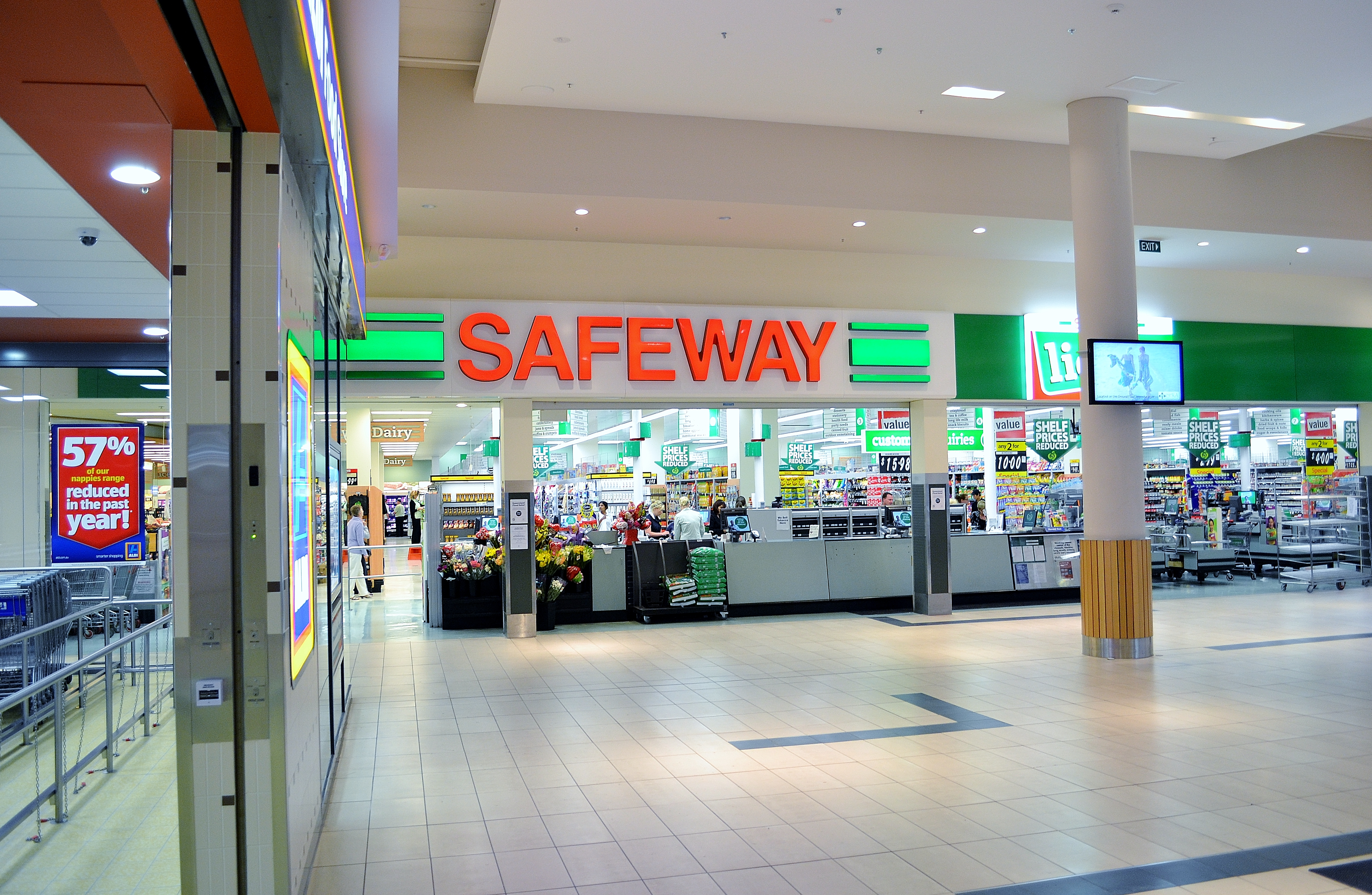 The Safeway store (now branded as Woolworths) at Bayside Shopping Centre in Frankston, Victoria, Australia